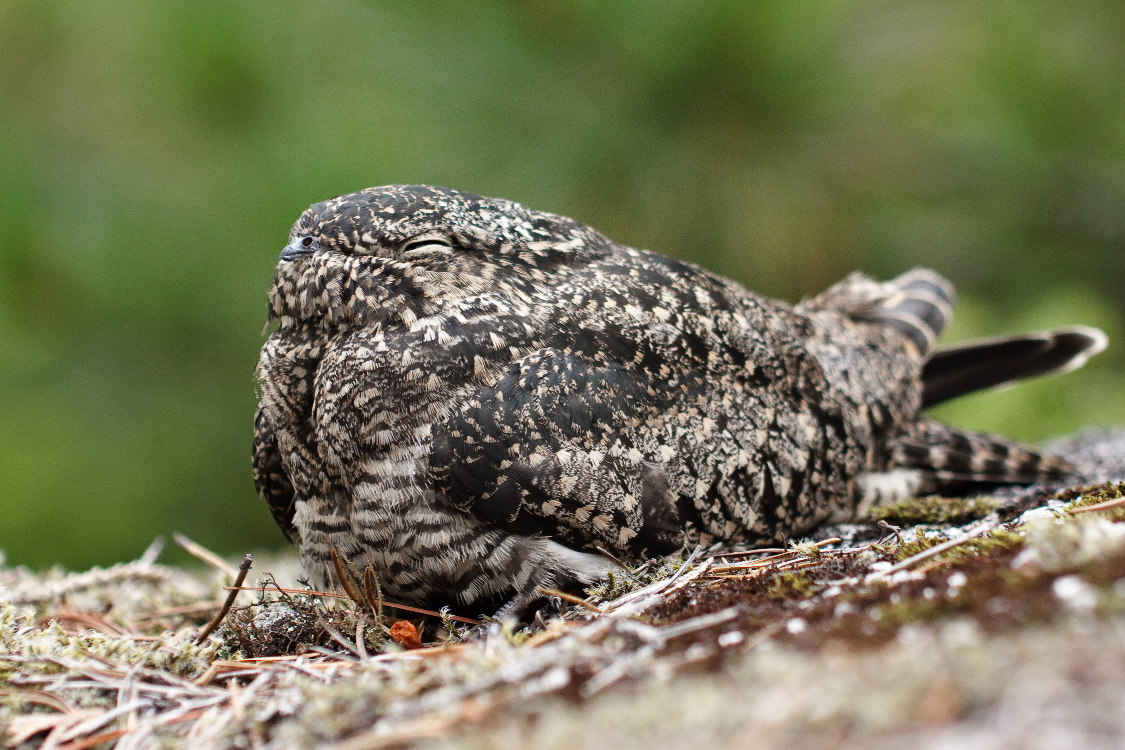 Common Nighthawk at Petgill Lake in Squamish, British Columbia, Western Canada.